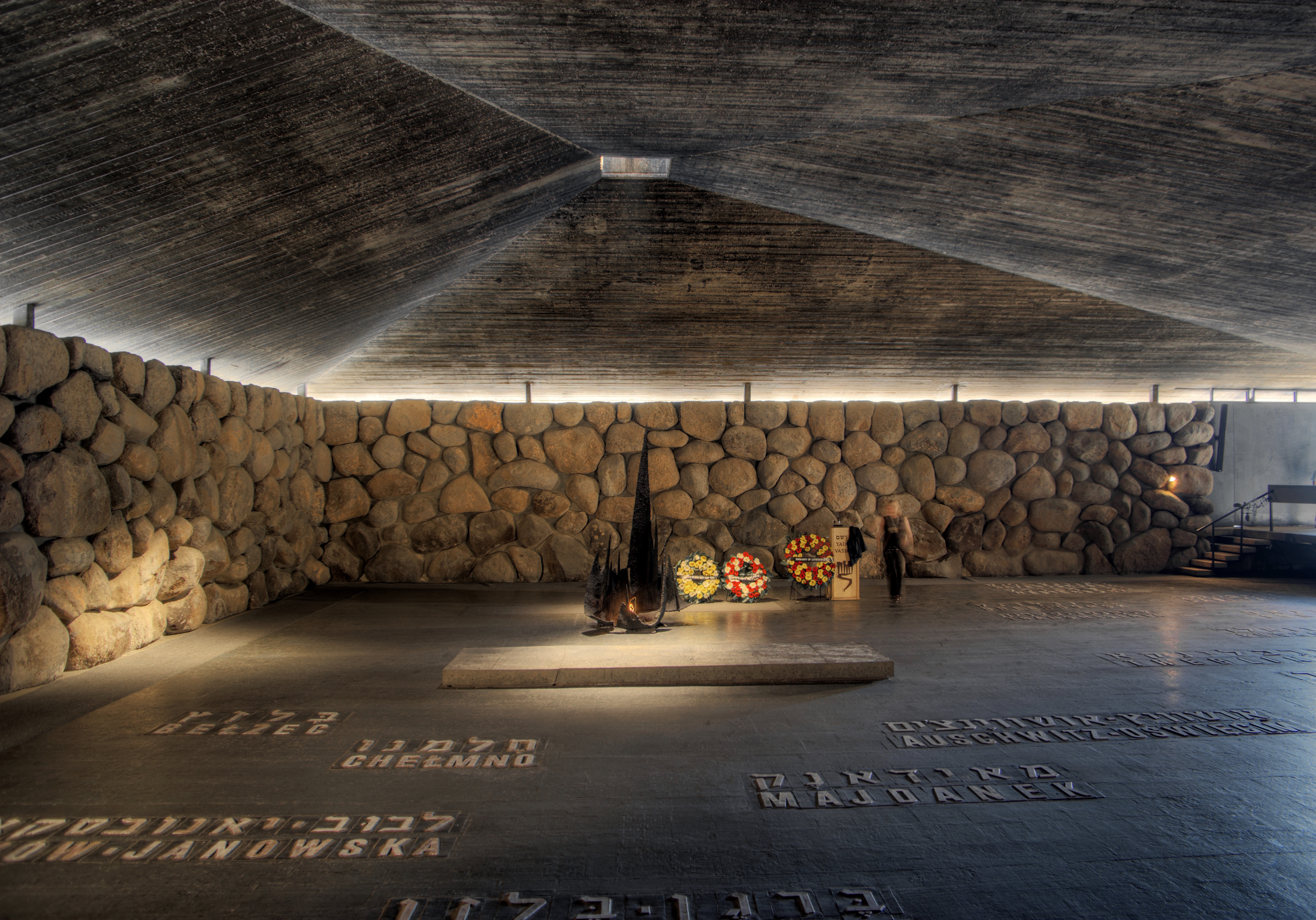 Jerusalem, Yad Vashem, Hall of Remembrance